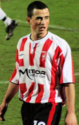 Kyle Moran. Cropped personal photo.